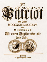 Front page of "The Patriot", published 1724